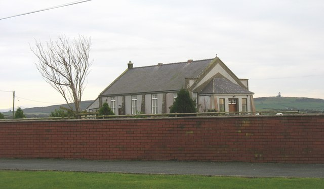 Capel Rehoboth, Burwen This Calvinist chapel dates from 1935. It is the third chapel built on this site, the others being erected in 1840 and 1897. It is still used for regular services.